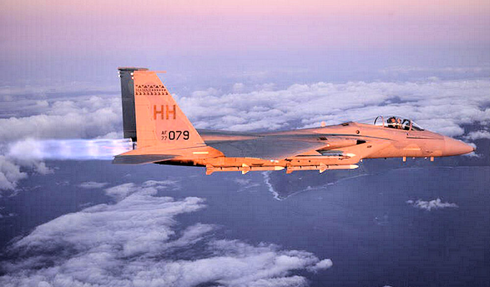 199th Fighter Squadron - McDonnell Douglas F-15A-16-MC Eagle 76-0052 while flying with the HANG 199th Fighter Squadron (U.S. Air Force photo)